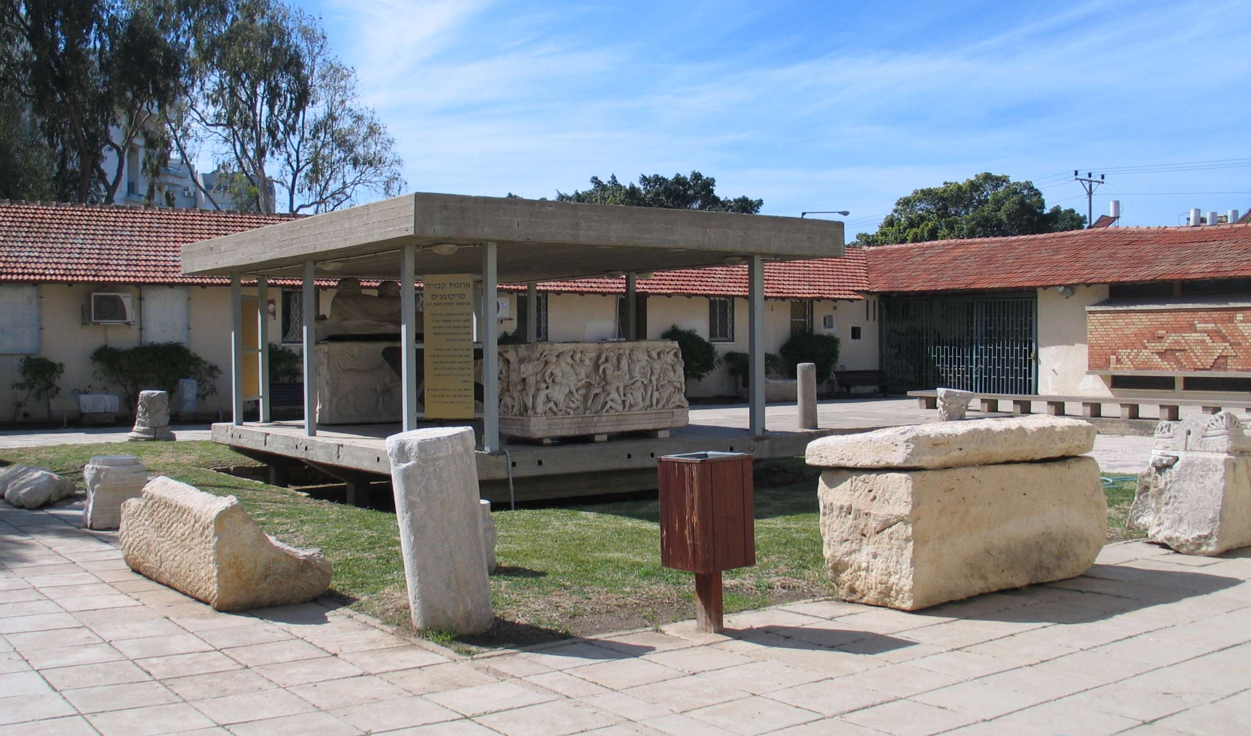 Archaeological park in Ashkelon, Israel.